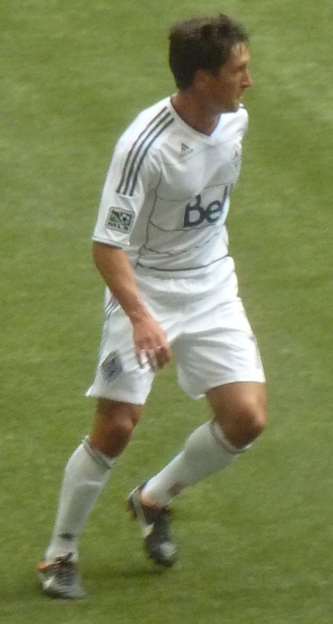 Van vs Por, 02-Oct-2011